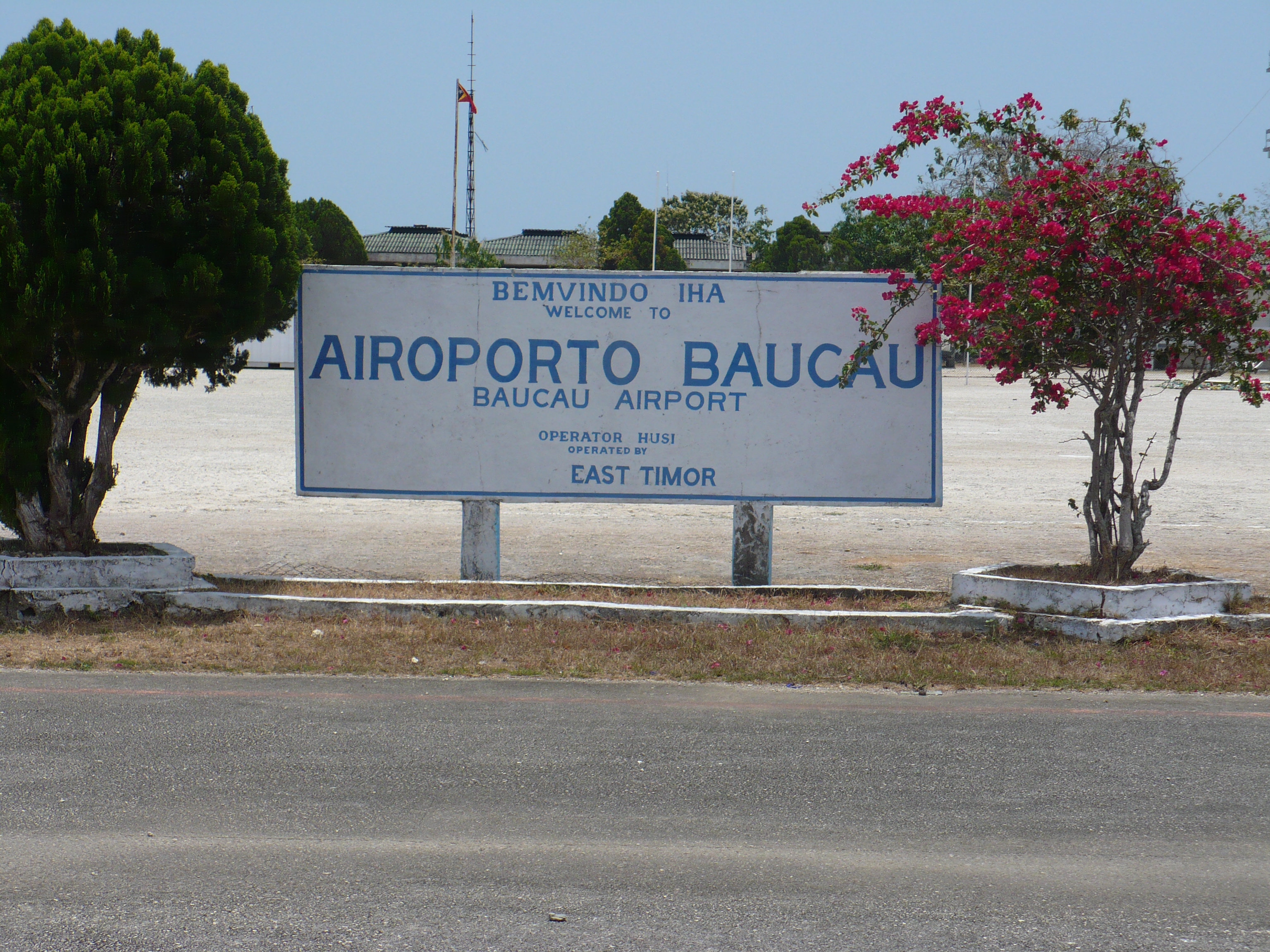 Welcome sign at the aircraft apron on Baucau Airport in East Timor